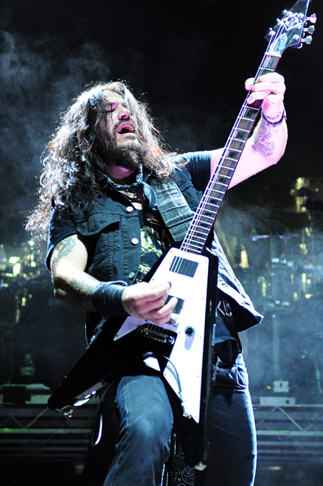 Robb Flynn with Machine Head in 2012.